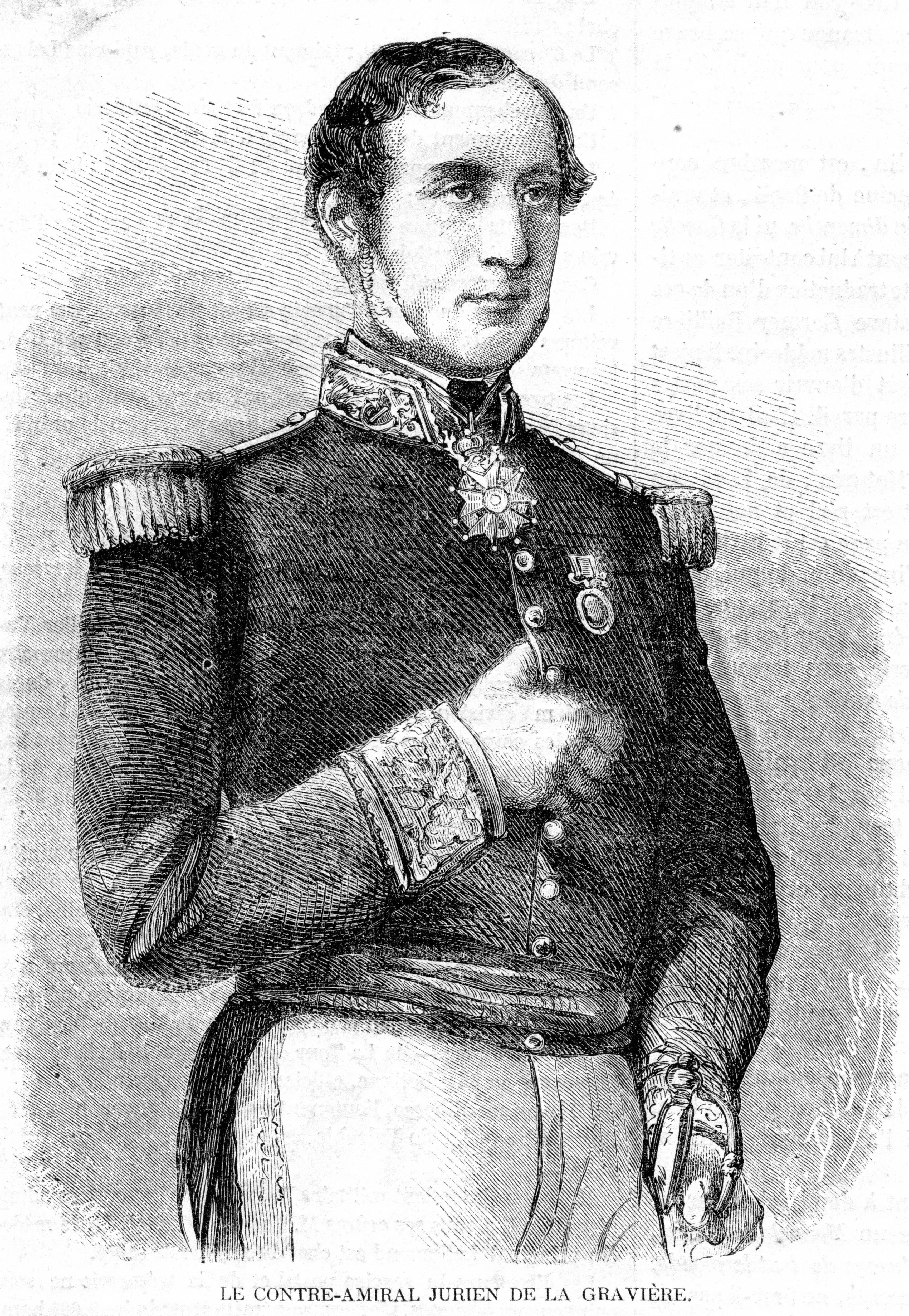 L'Illustration 1862 gravure Le Contre-Amiral Jurien de la Gravière